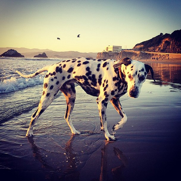 Dalmatian Ocean Beach California